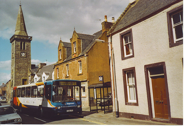 Strathmiglo High Street